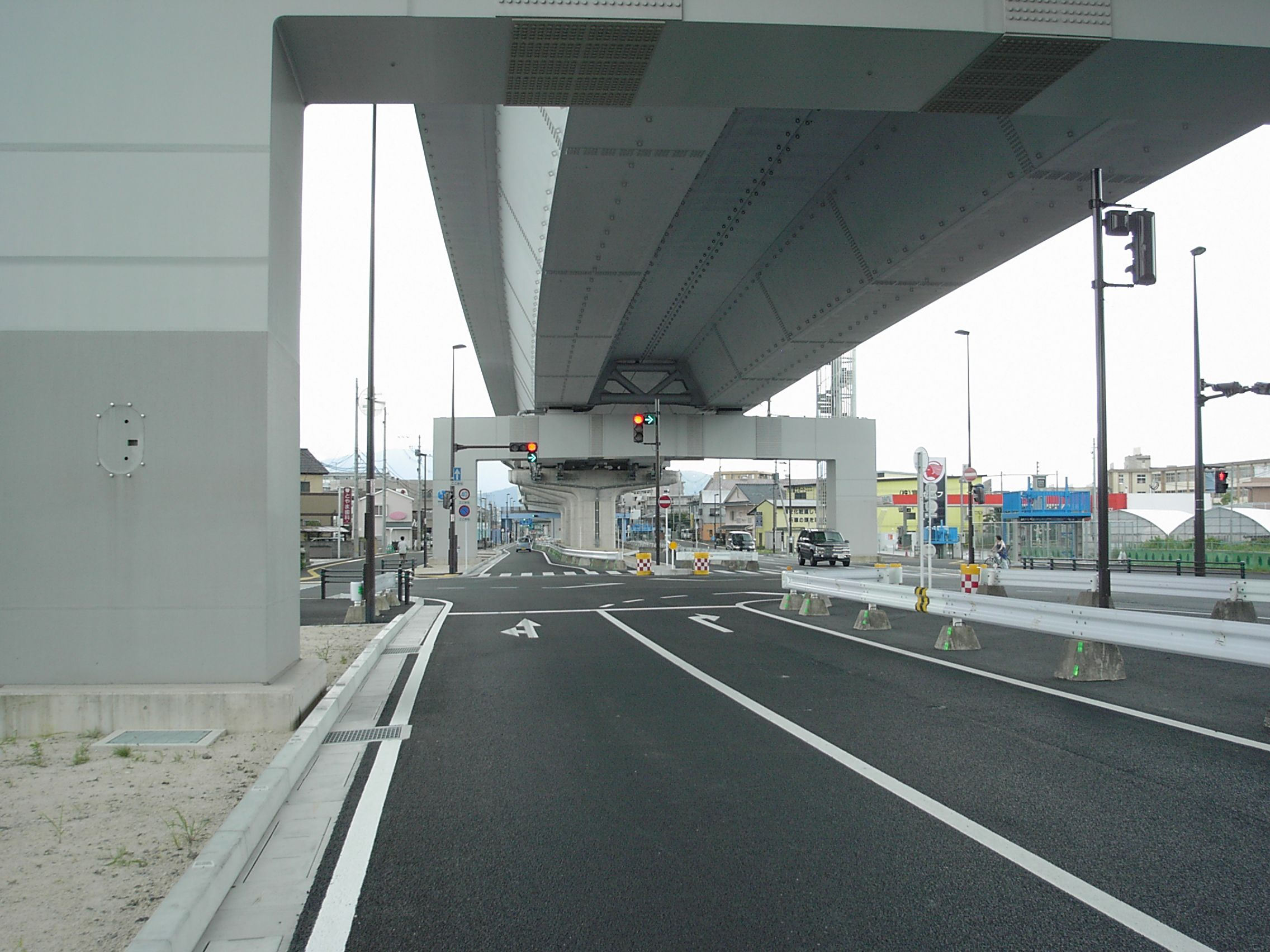 the Fukuoka Ring Road, Route 202, with the Fukuoka Expwy Route 5 over it.